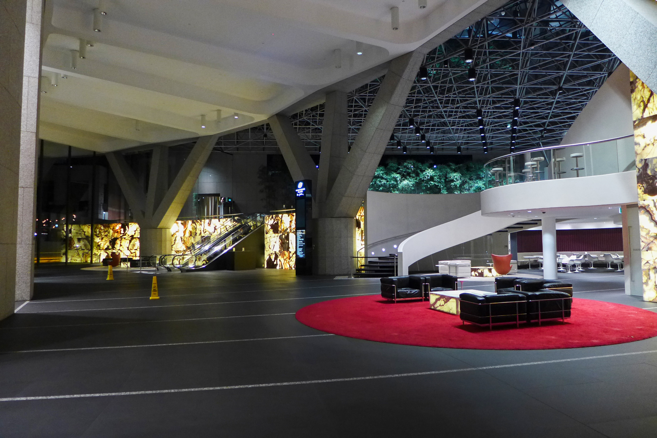 Grosvenor Place (skyscraper) Lobby